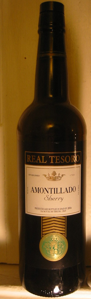 Amontillado Sherry 750 m